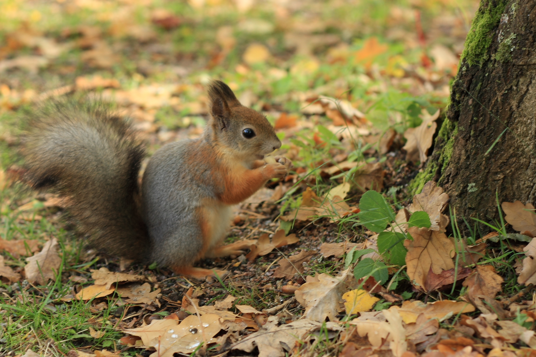 A squirrel eating on autumn leaves in Seurasaari, Helsinki, Finland.